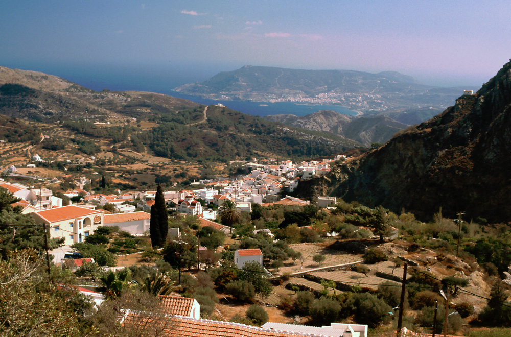 View over the island of Karpathos, Greece, the town of Pigadia in the background